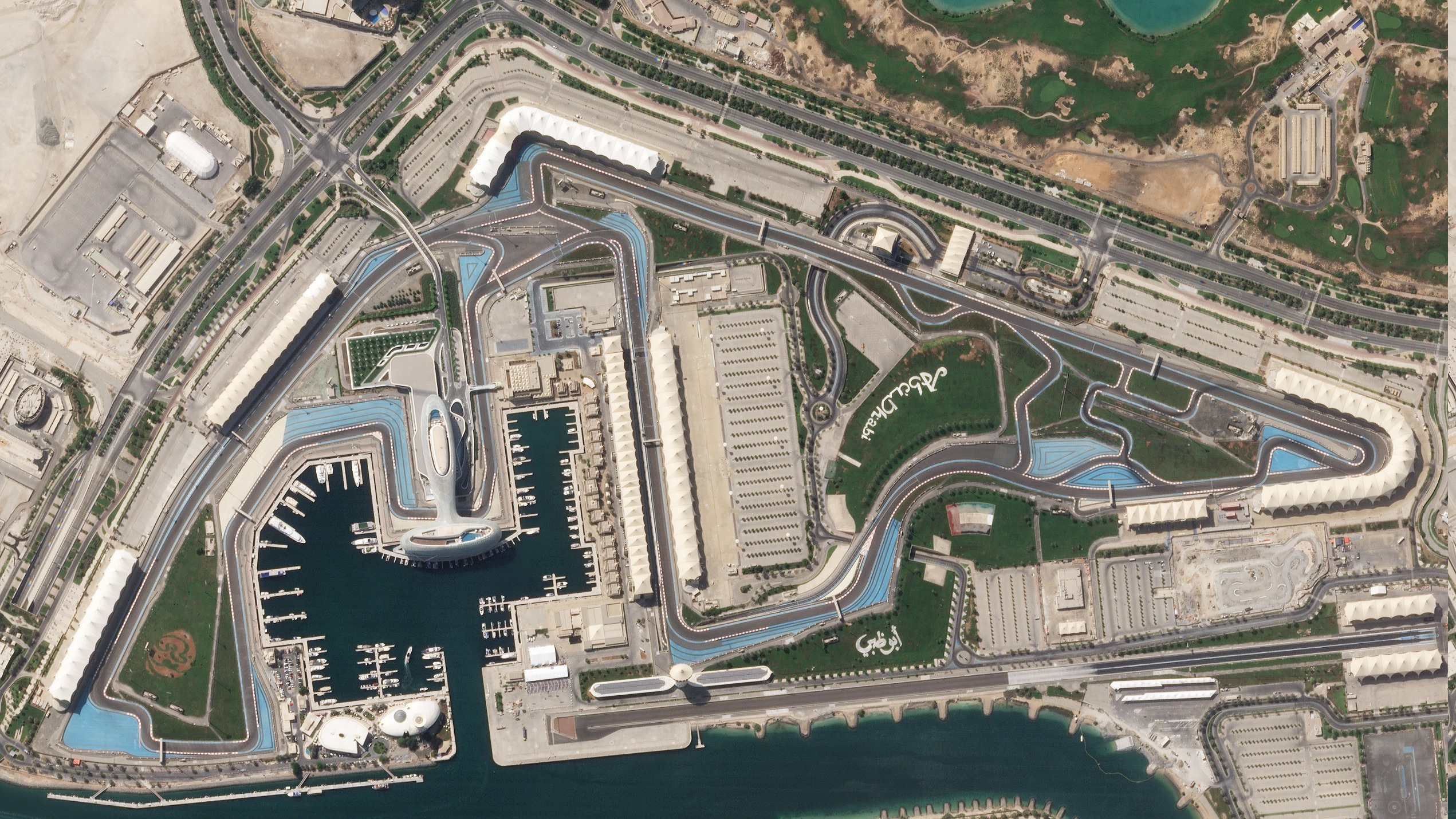 The Yas Marina Circuit, the venue for the Abu Dhabi Grand Prix, situated on Yas Island, about 30 minutes from the UAE capital of Abu Dhabi. Image taken on October 12, 2018, by a Planet Labs SkySat satellite.